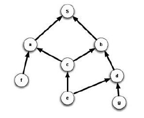 DODAG Graph. node namly 's' is the root of graph or destination.